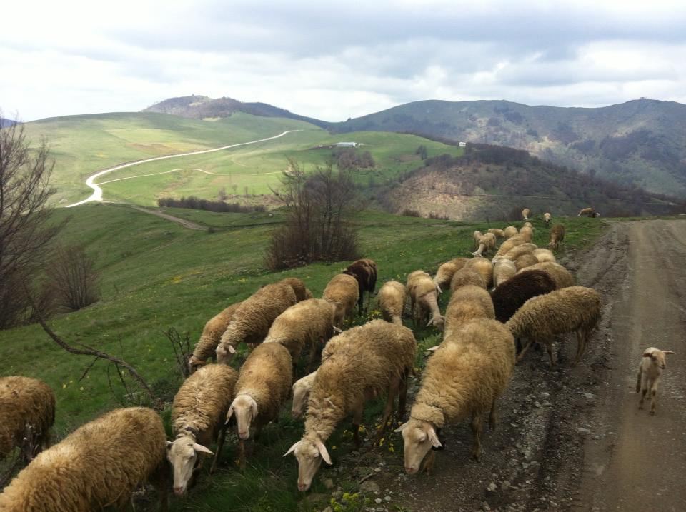 Natyra e Brezes